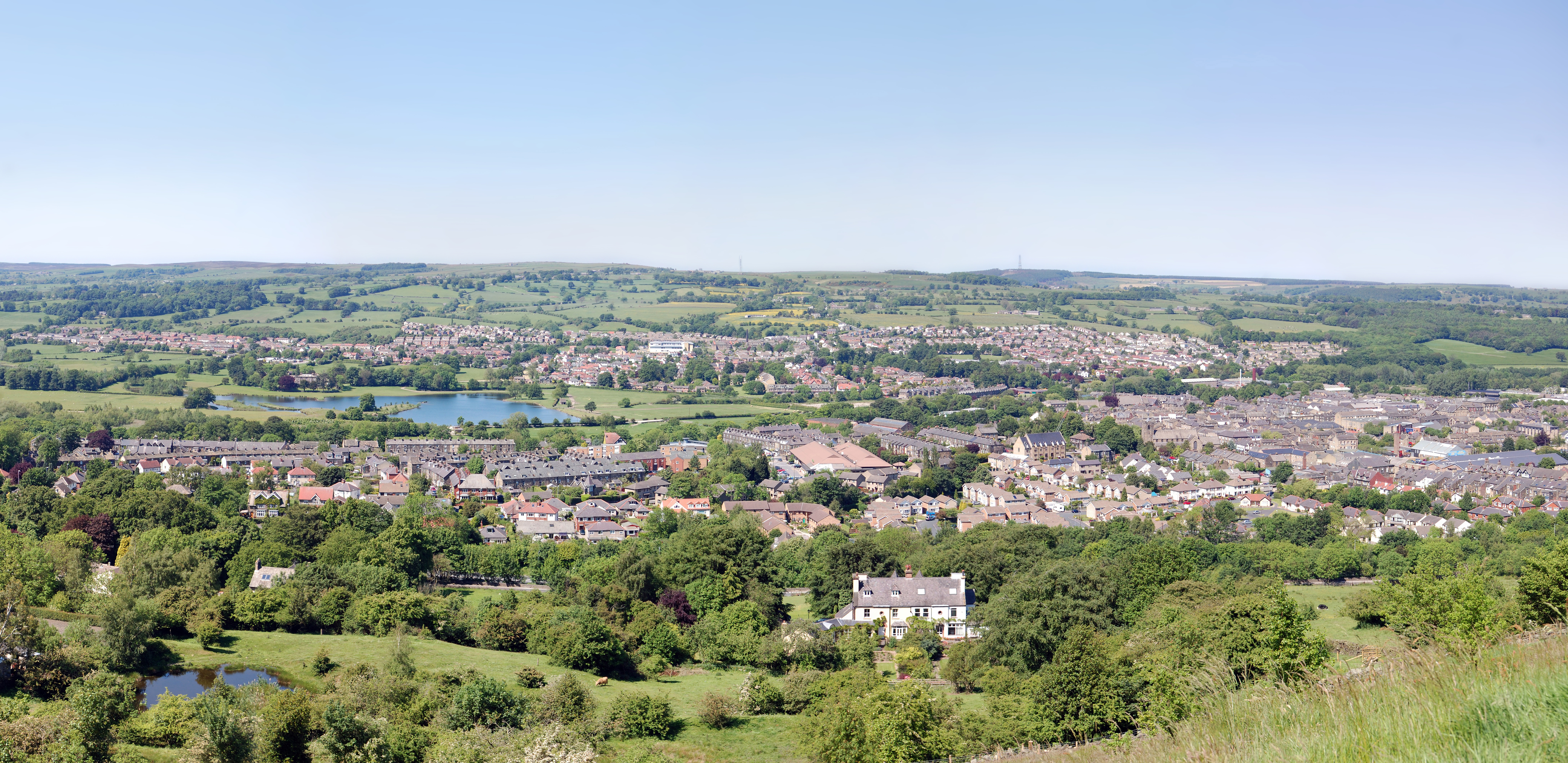 This is the vista seen from the meadow above Sinclair's Field on Otley Chevin. It provides some wonderful views of the town in the valley below, especially on a summer's day like the one depicted in this image. Great Dib Wood rises up behind this point as the incline of the Wharfe valley steepens up to the point known as Surprise View.